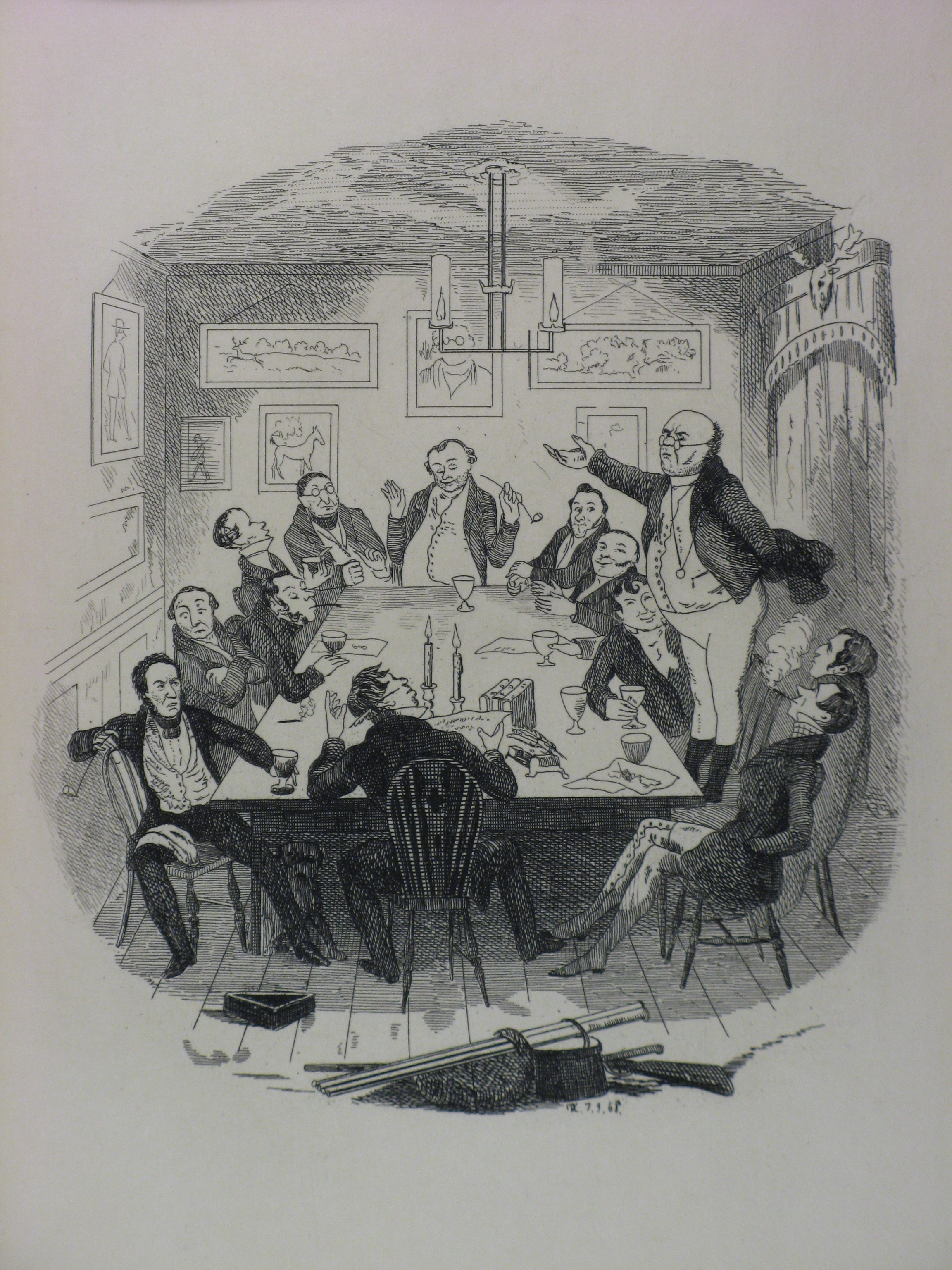 A photograph of an engraving in The Writings of Charles Dickens volume 1, The Pickwick Club, titled "Mr. Pickwick addresses the Club".